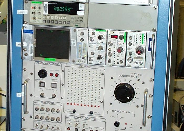 Racked Calibrated Test Equipment: An oscilloscope, digital multimeter and control panel are shown. Stimulus is applied to the test equipment from the back side, through the Test Point matrix. This equipment is committed to a specific metrology test, facilitating limited calibration.